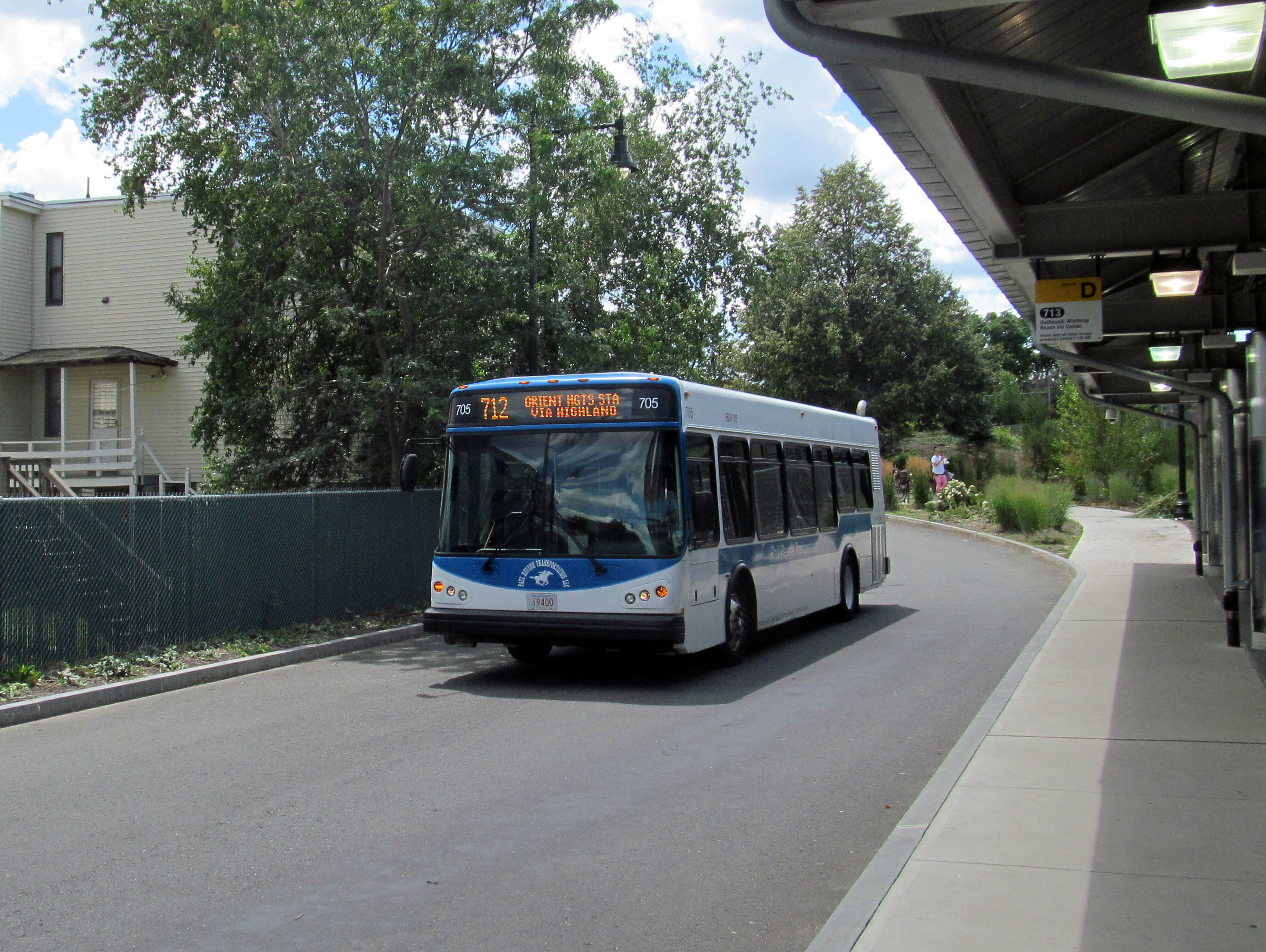 An inbound #712 bus arrives at Orient Heights in July 2015